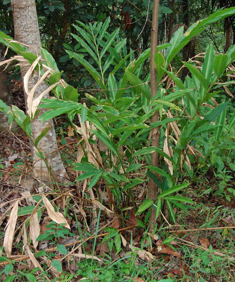 Amomum compactum, habits. Planted at homegarden in Sirnarasa, Sukabumi, West Java, Indonesia.